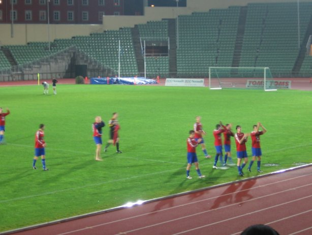 Skeid salute the support after a 1-0 victory over LovHam. 30/09/07.